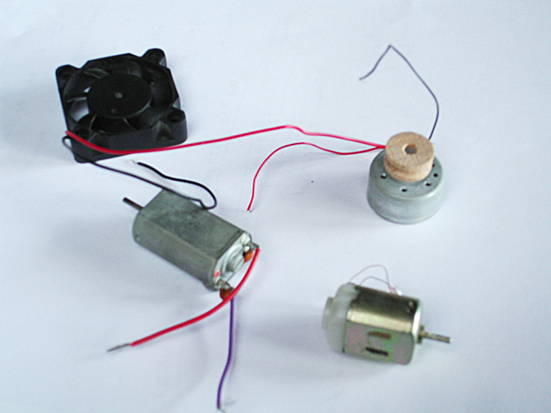 4 small electric brushed DC motors.